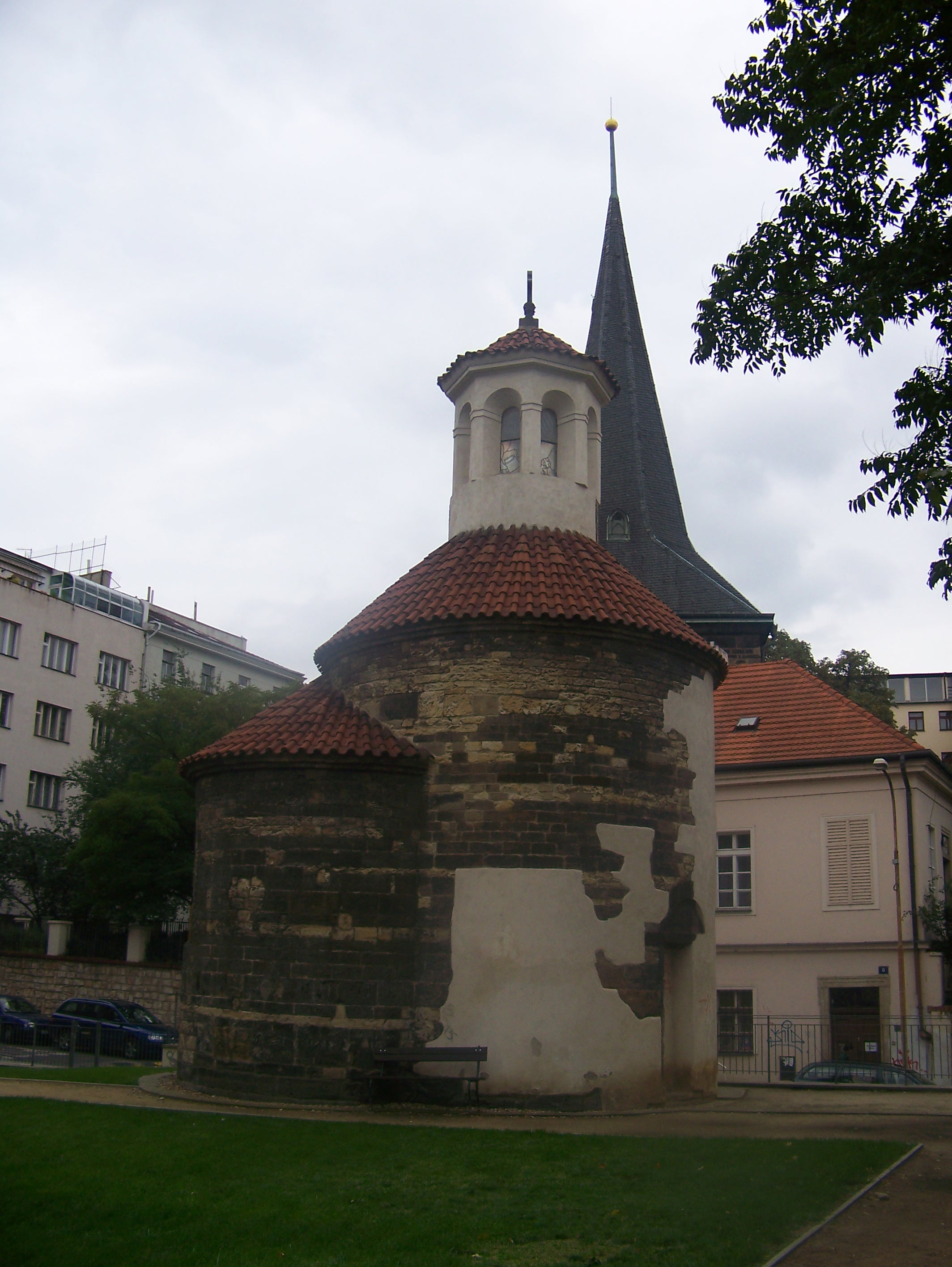 Chapel of St. Longin in Prague